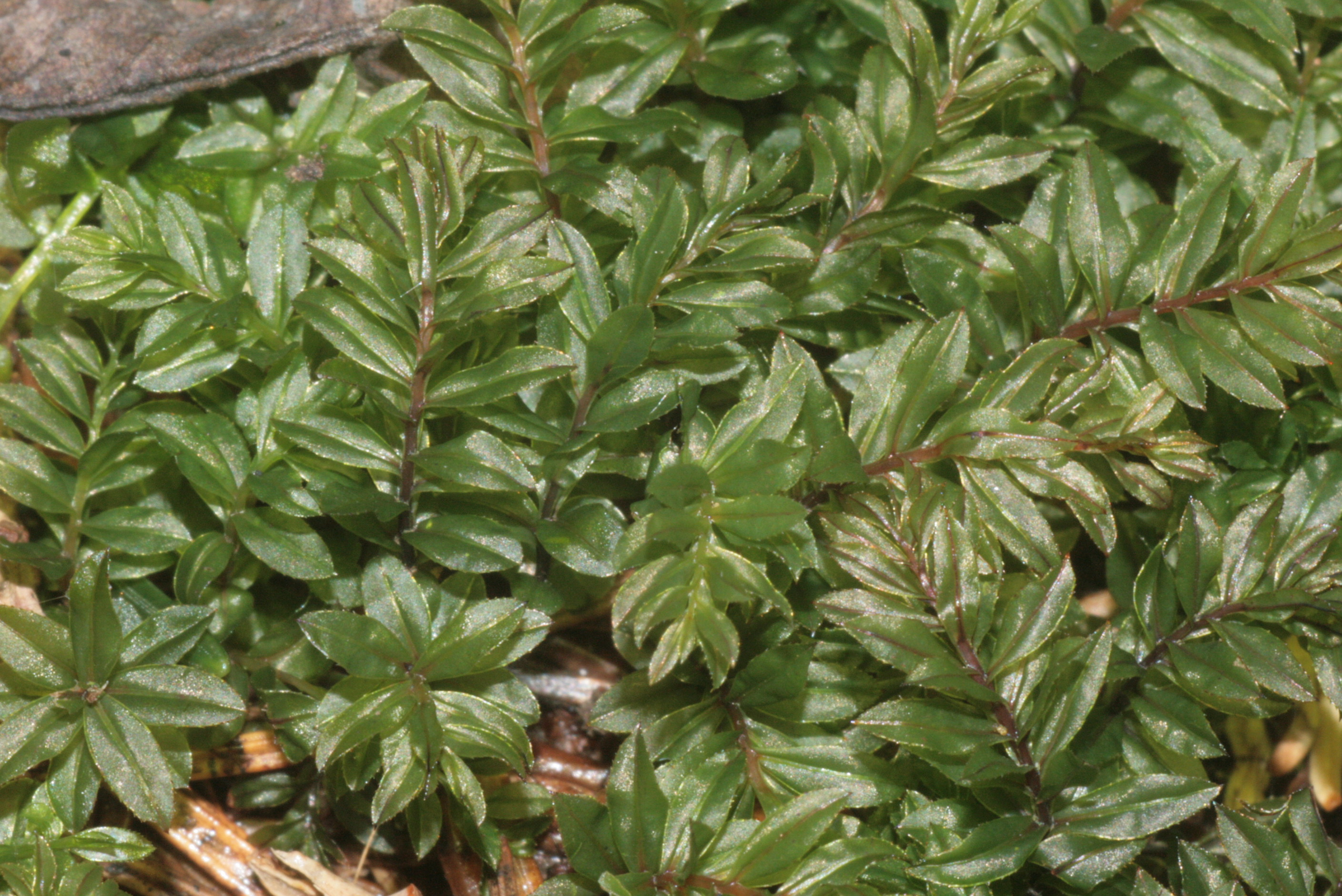 Mnium marginatum